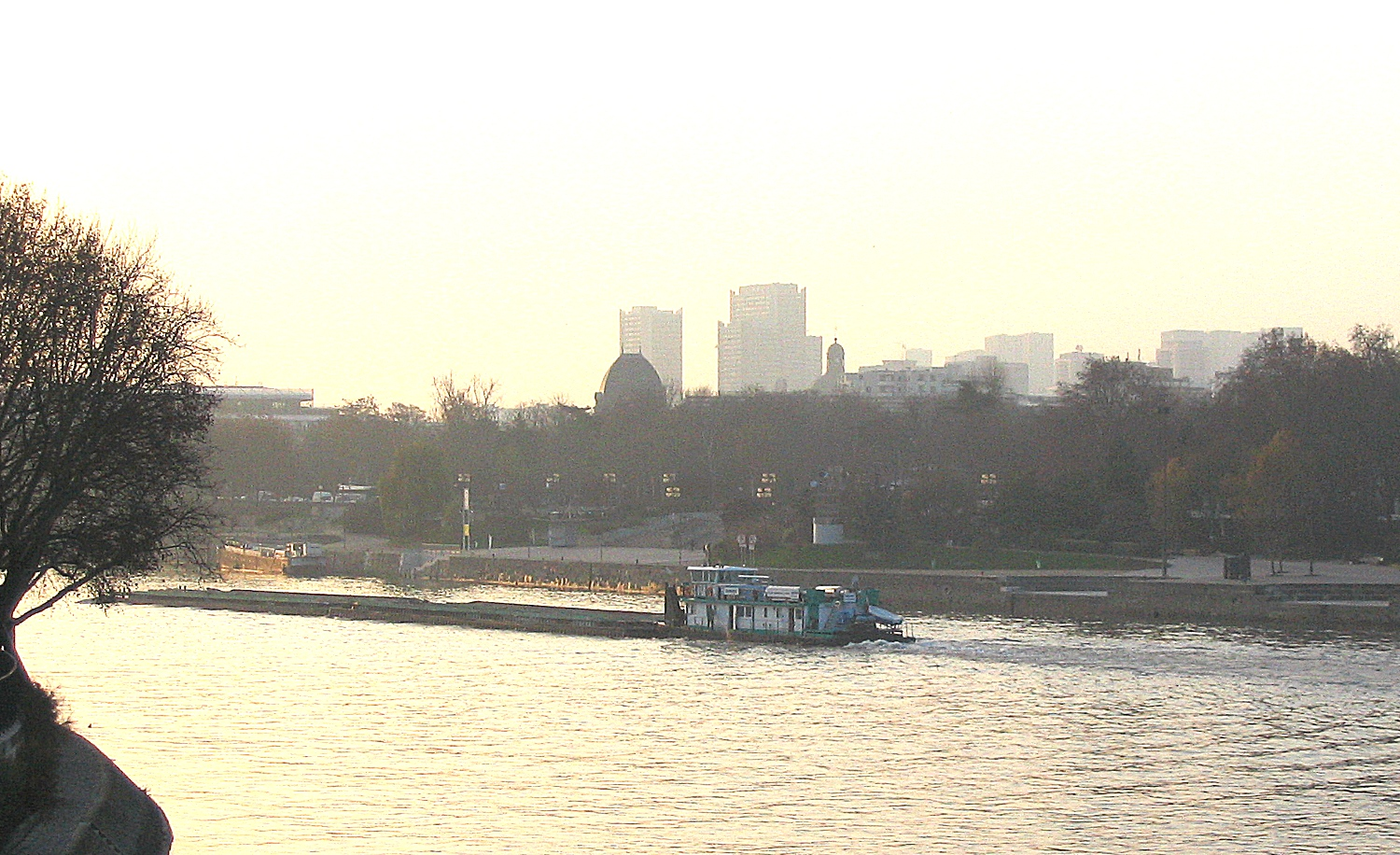 Quai St-Bernard - sunrise - Paris